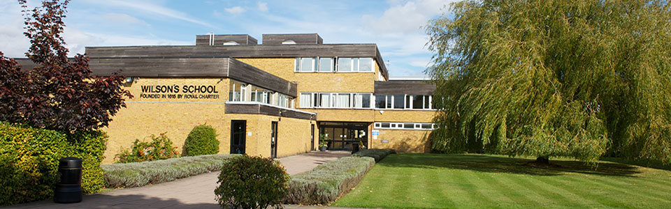 Wilson's School front entrance